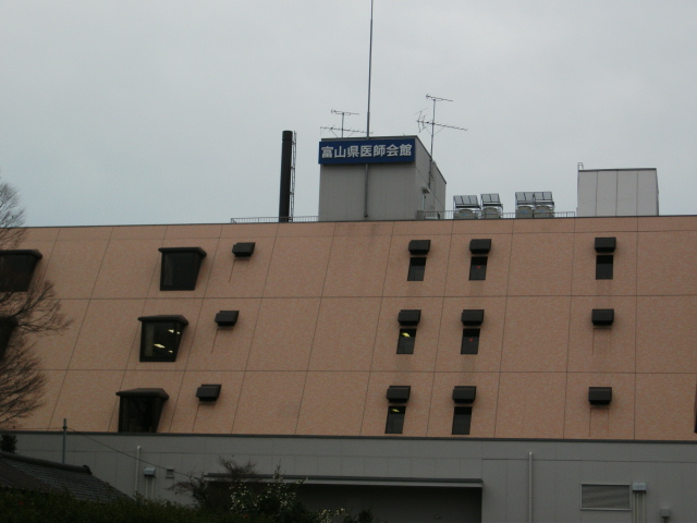 Toyama-Prefecture Doctor Hall(Ninagawa336 Toyama-City Toyama-Prefecture JAPAN)